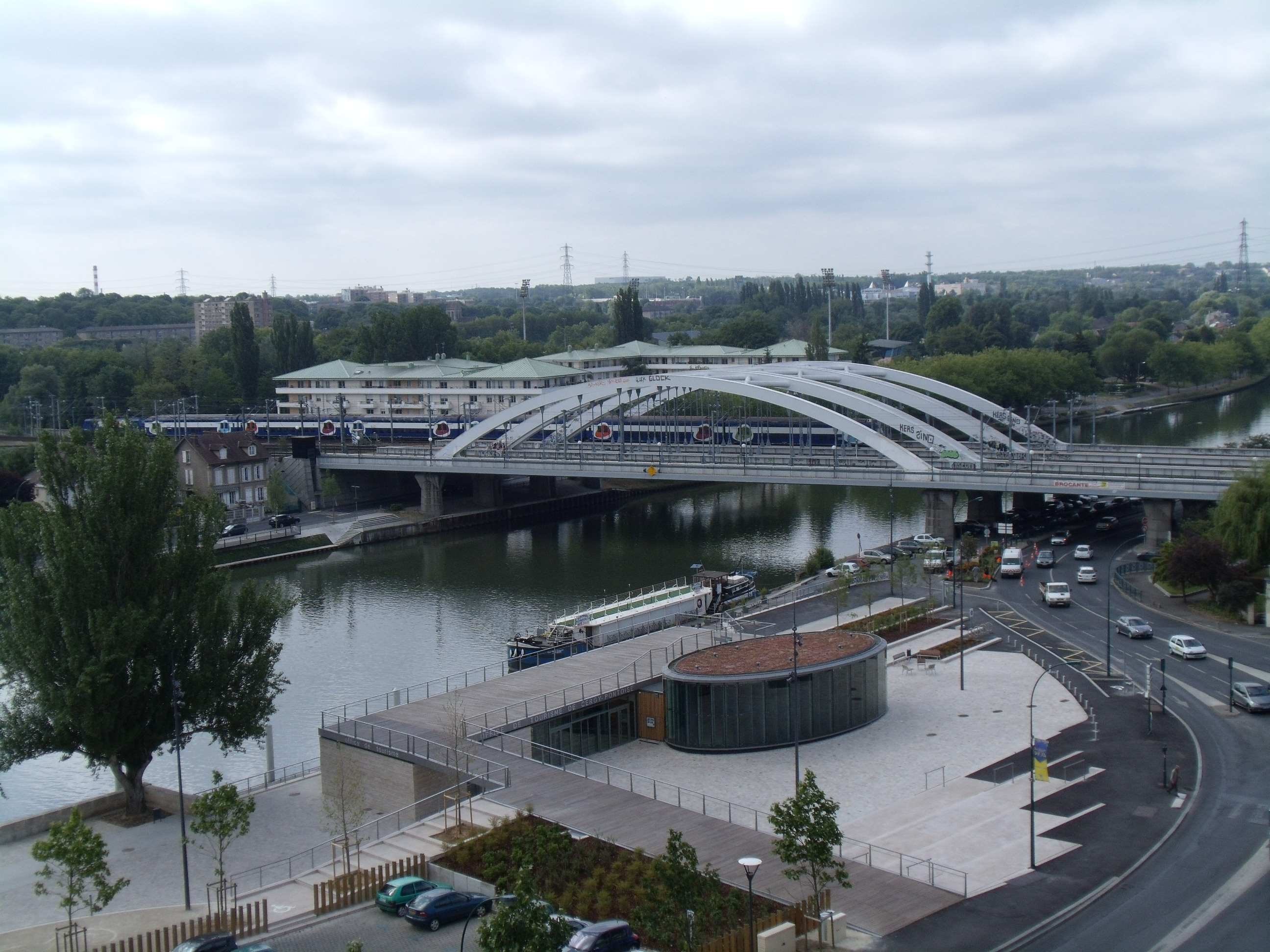 The six tracks railway bridge over Oise river between Pontoise and Saint-Ouen-l'Aumone